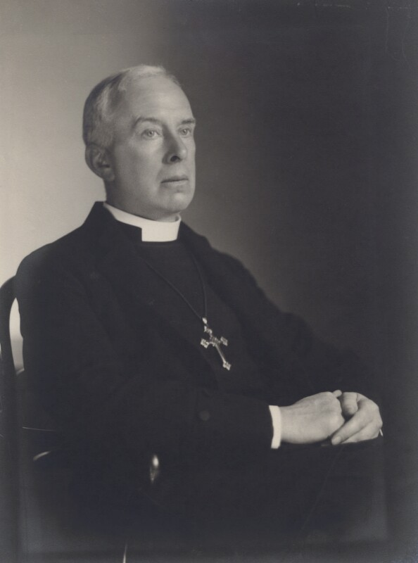 Campbell Richard Hone by Elliott & Fry vintage bromide print, circa 1930s 6 in. x 4 3/8 in. (152 mm x 112 mm) image size Given by Corporation of Church House, 1949 NPG x159161